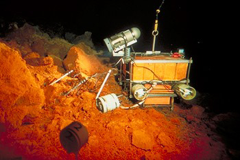 Ocean Bottom Observatory at Pele's Vent, Loihi Seamount